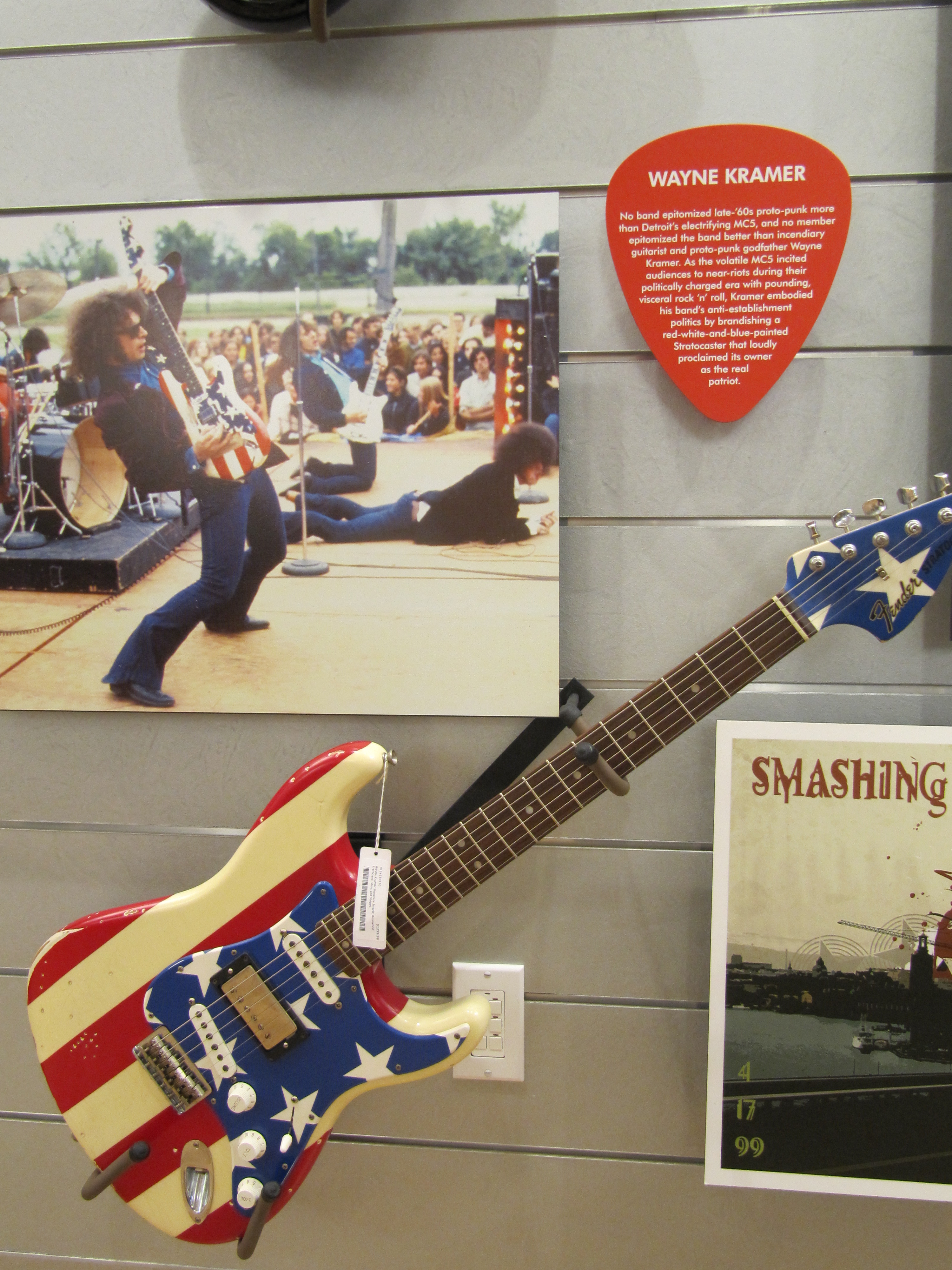 Fender Guitar Factory museum 08. Wayne Kramer MC5 model